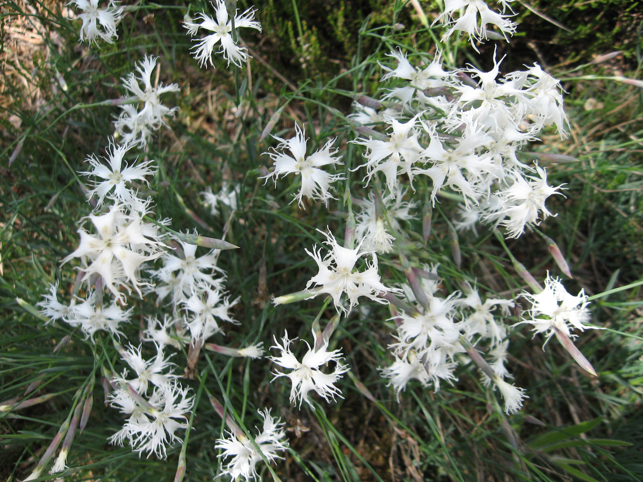 Sand Pink, Dianthus arenarius, in Mälarhusen